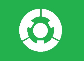 Flag of Tomioka Fukushima